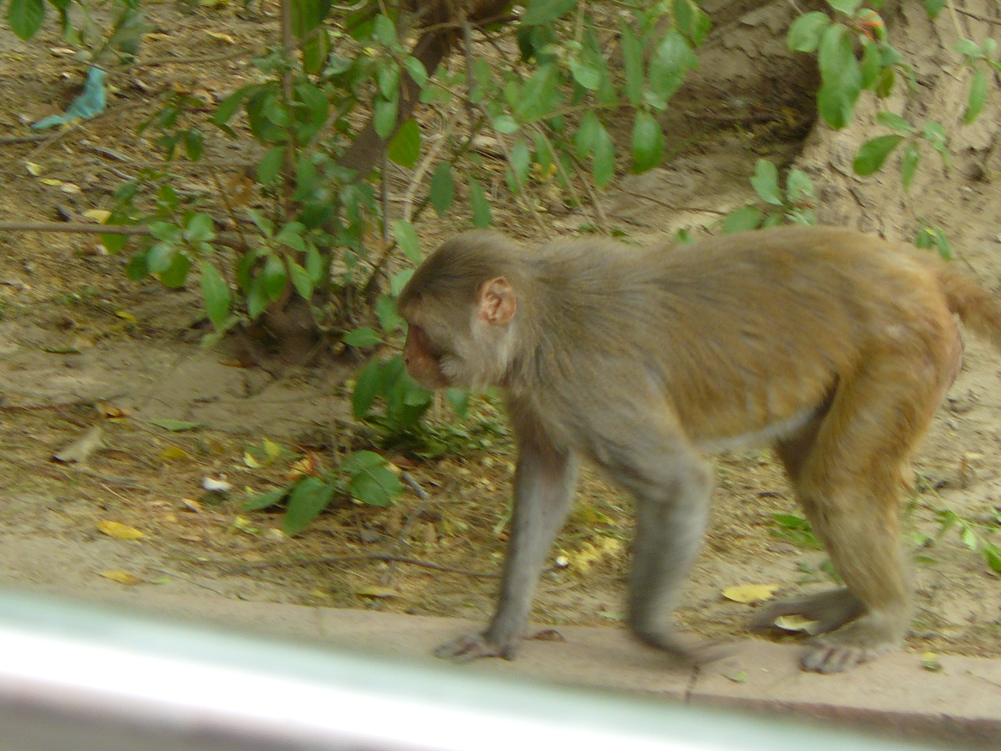 beautiful